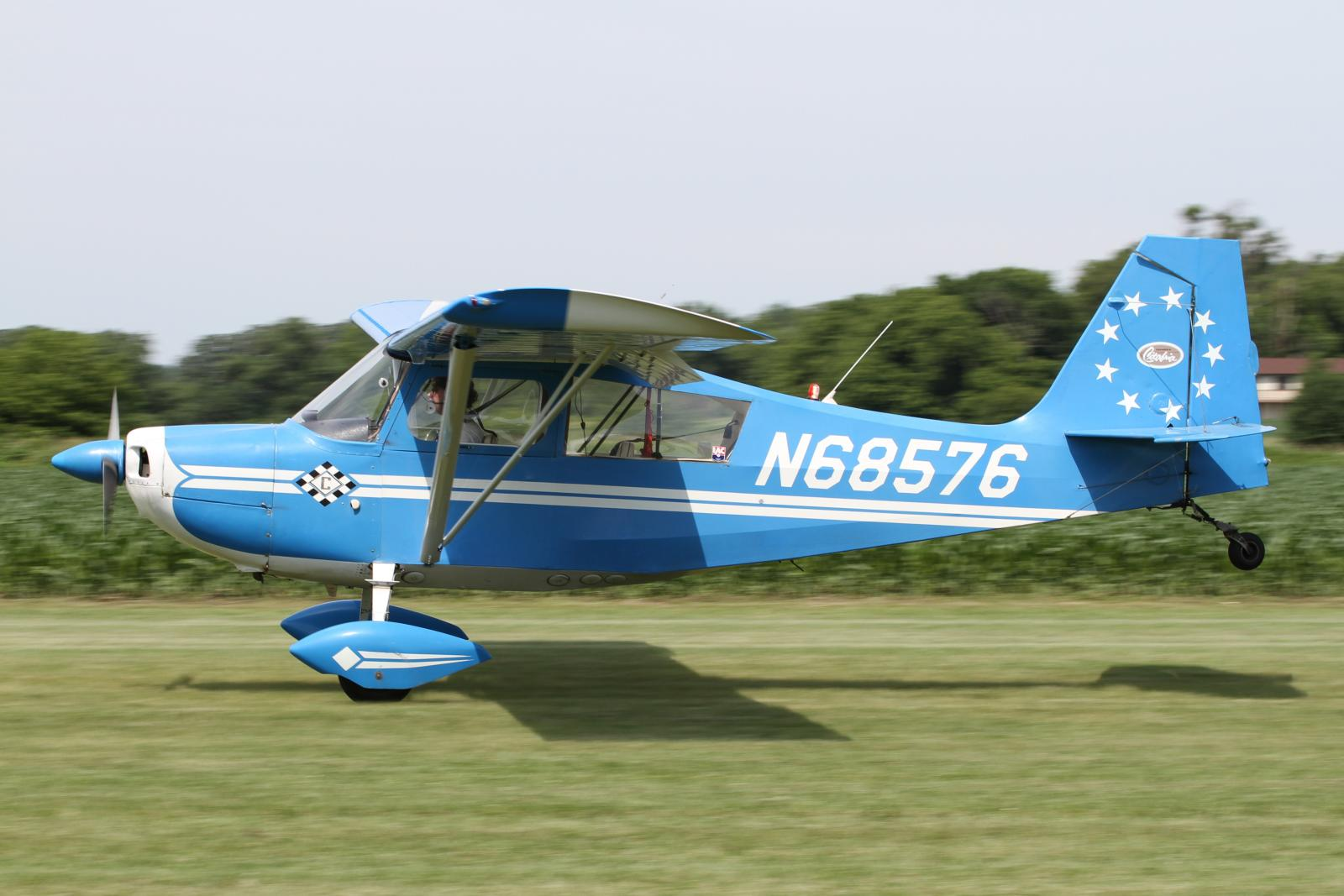 1972 Bellanca 7GCBC C/N 398-72; Big Foot Fly-In, Walworth, Wisconsin, June 25th 2011